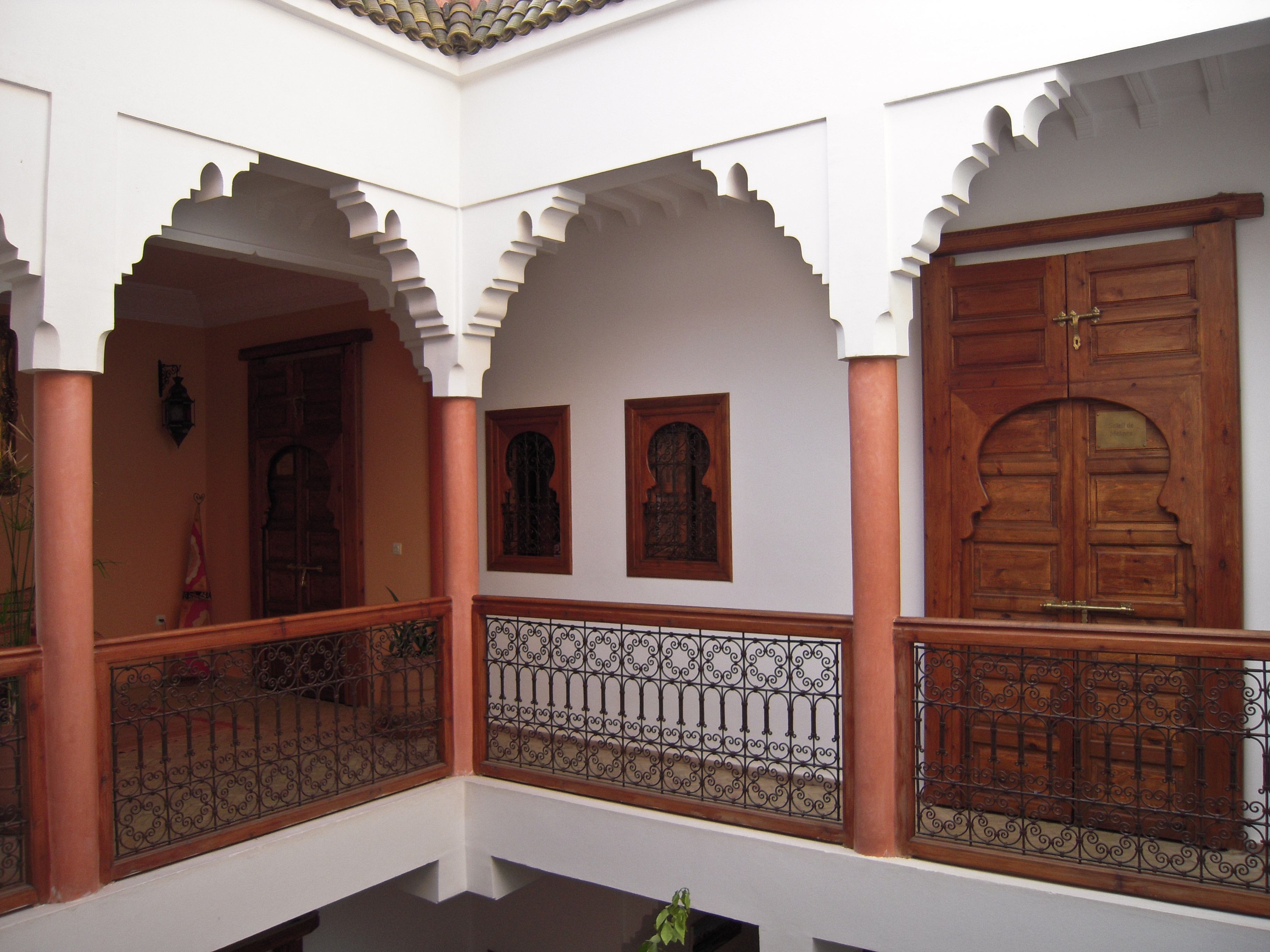 Riad in Marrakesh